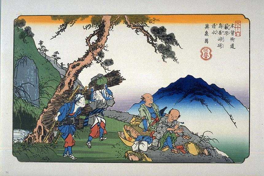 Yabuhara on the Kisokaido, ukiyo-e prints by Keisai Eisen